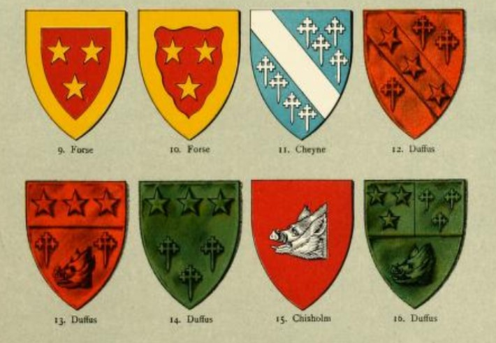 Coats of arms of the noble families of Sutherland of Forse, Sutherland of Duffus, Cheyne and Chisholm